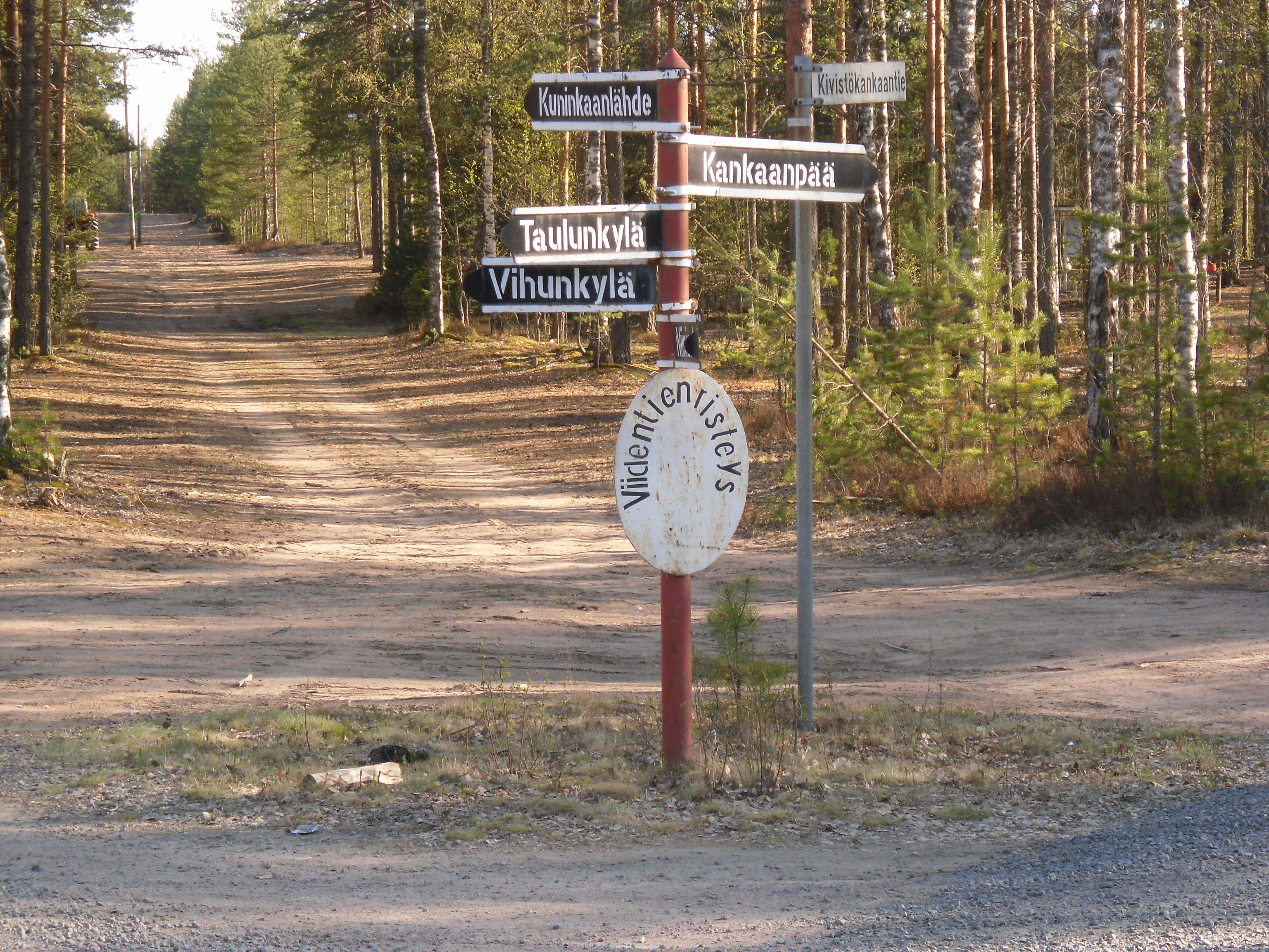 Old junction at Hämeenkangas